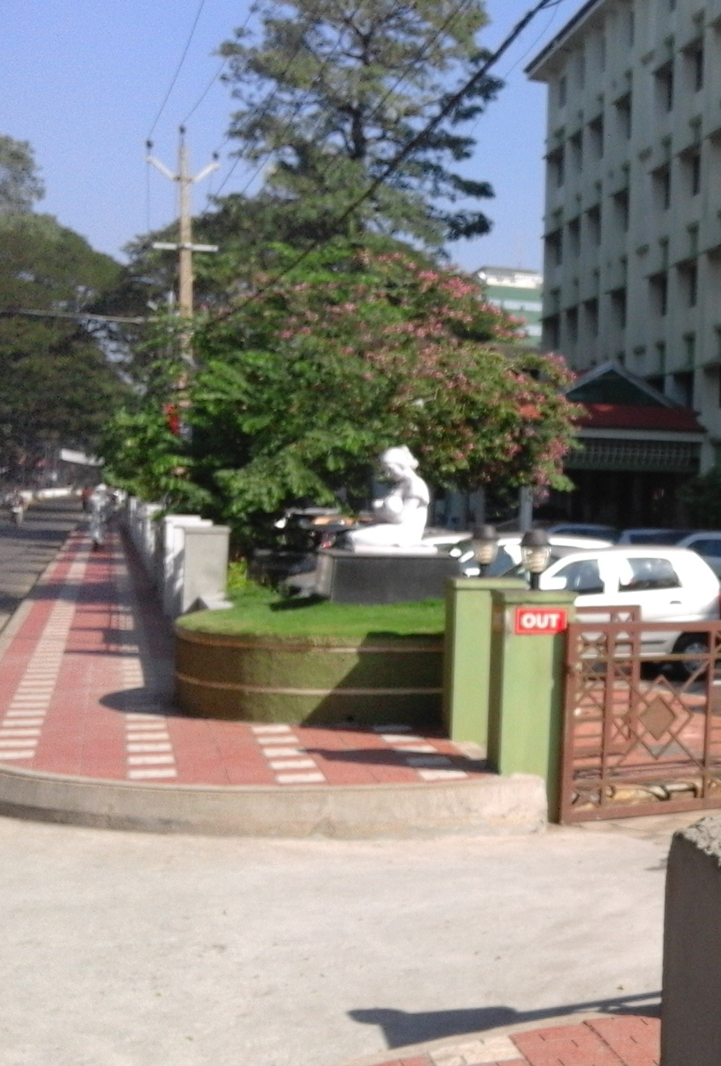 Calicut Medical College, Kozhikode East, Kozhikode District, Kerala, India.